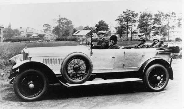 Star Mercury Motorcar, Bushbury. Photograph taken at the back of the Star Motor Company Ltd factory in Showell Street, Bushbury, Wolverhampton. The driver is believed to be Thomas Price, head foreman road tester for Guy Motors.